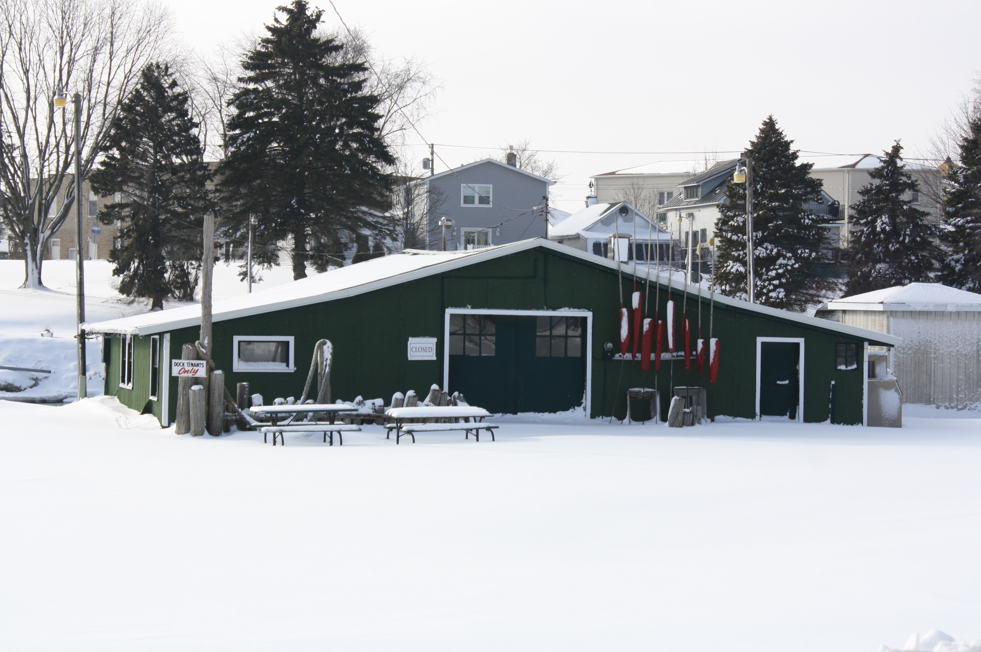 The Art Dettman Fishing Shanty in Algoma, Wisconsin. It is listed on the National Register of Historic Places.